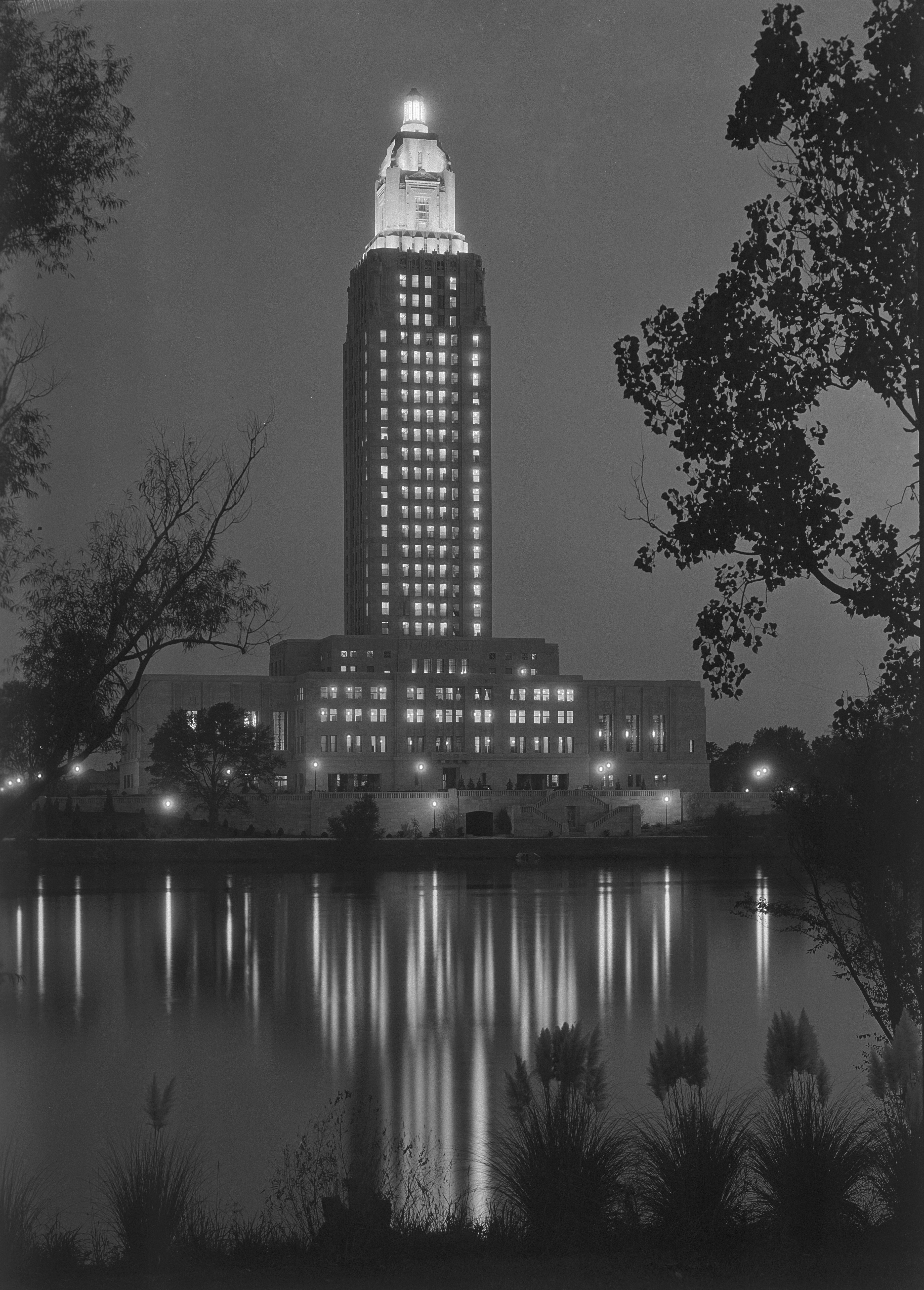 Louisiana State Capitol, Baton Rouge, Louisiana. Tower lights at night, reflected in lake.